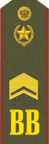 Russian Federation; Russian troops of Ministry of the Interior; special rank insignia of the internal organisation, here: Troops of interior (1995 ⇒ ...) States fire department service (1995—2016) Rank insignia: shoulder board to the everyday uniform, shirt Rank: «Starshina» (comparable to NATO OR8 – Master Sergeant).